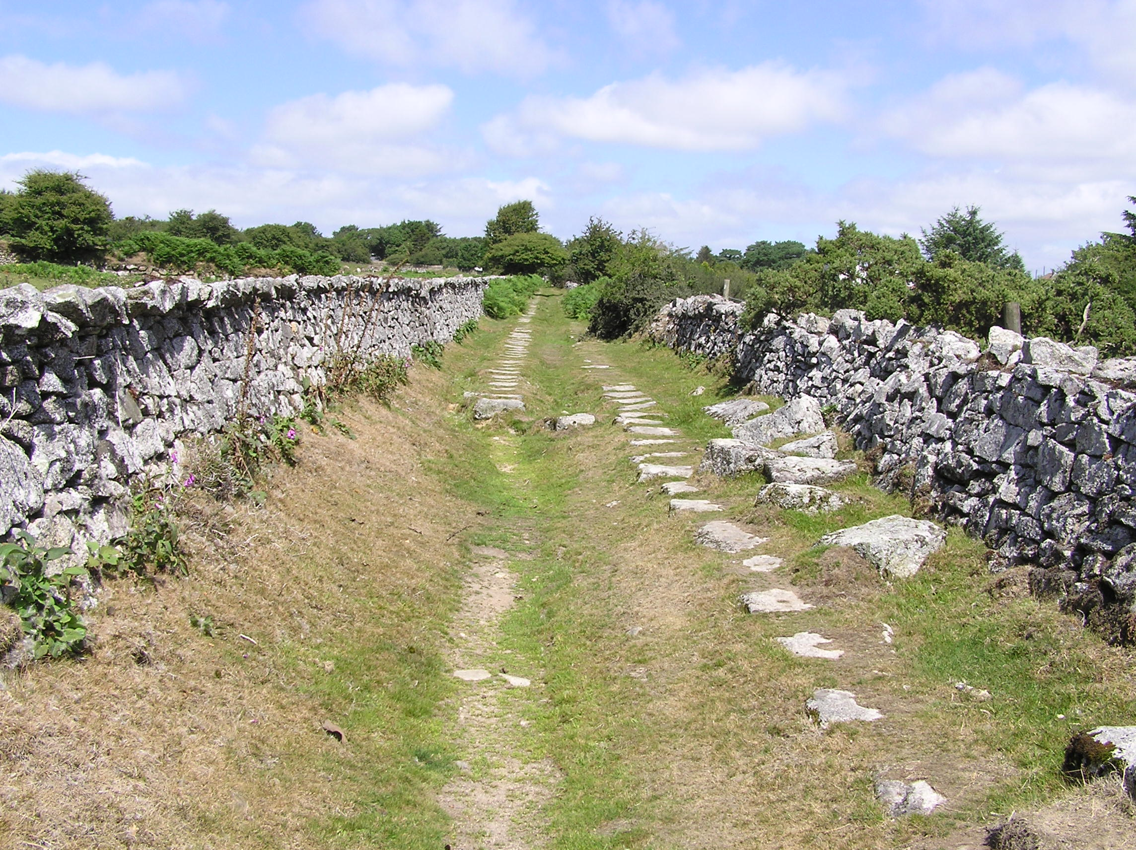 Trackbed of ther Liskeard and Caradon Railway just south of Minions, Cornwall, showing stone block track